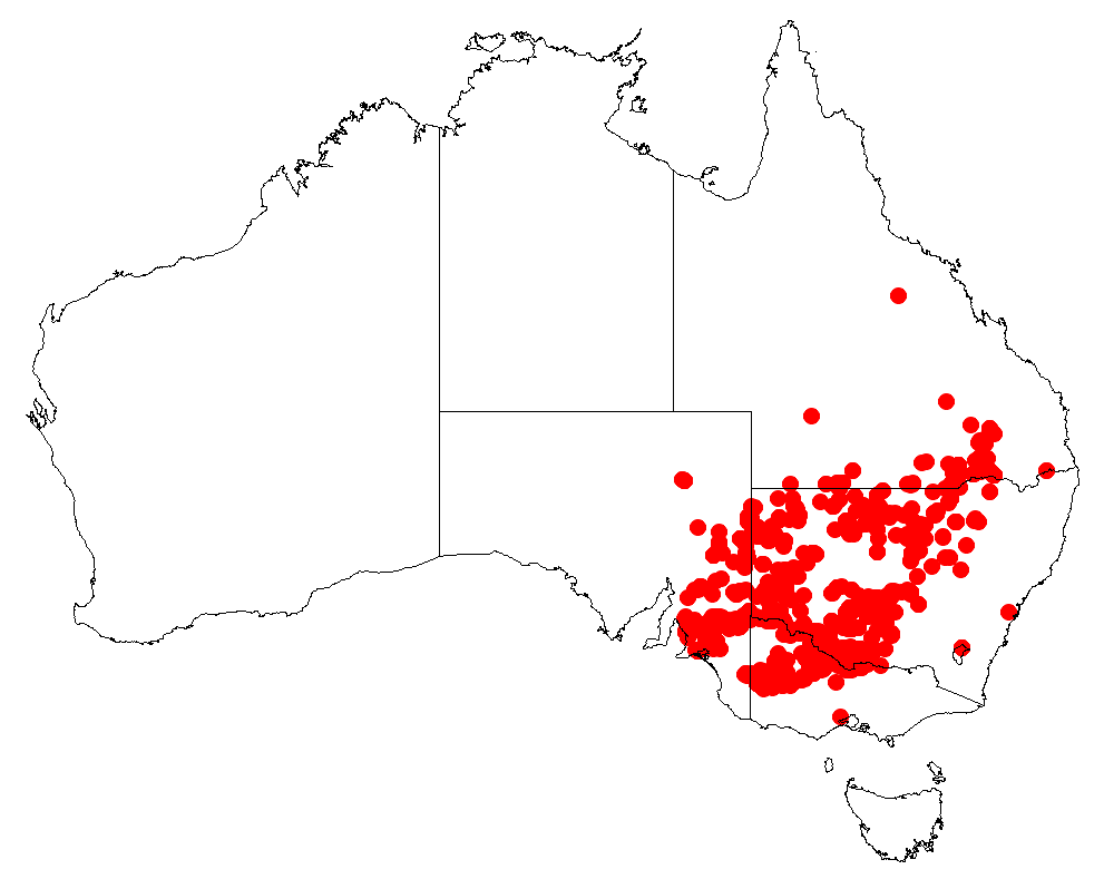 Eucalyptus largiflorens Occurrence data from AVH downloaded 8 September 2018 from